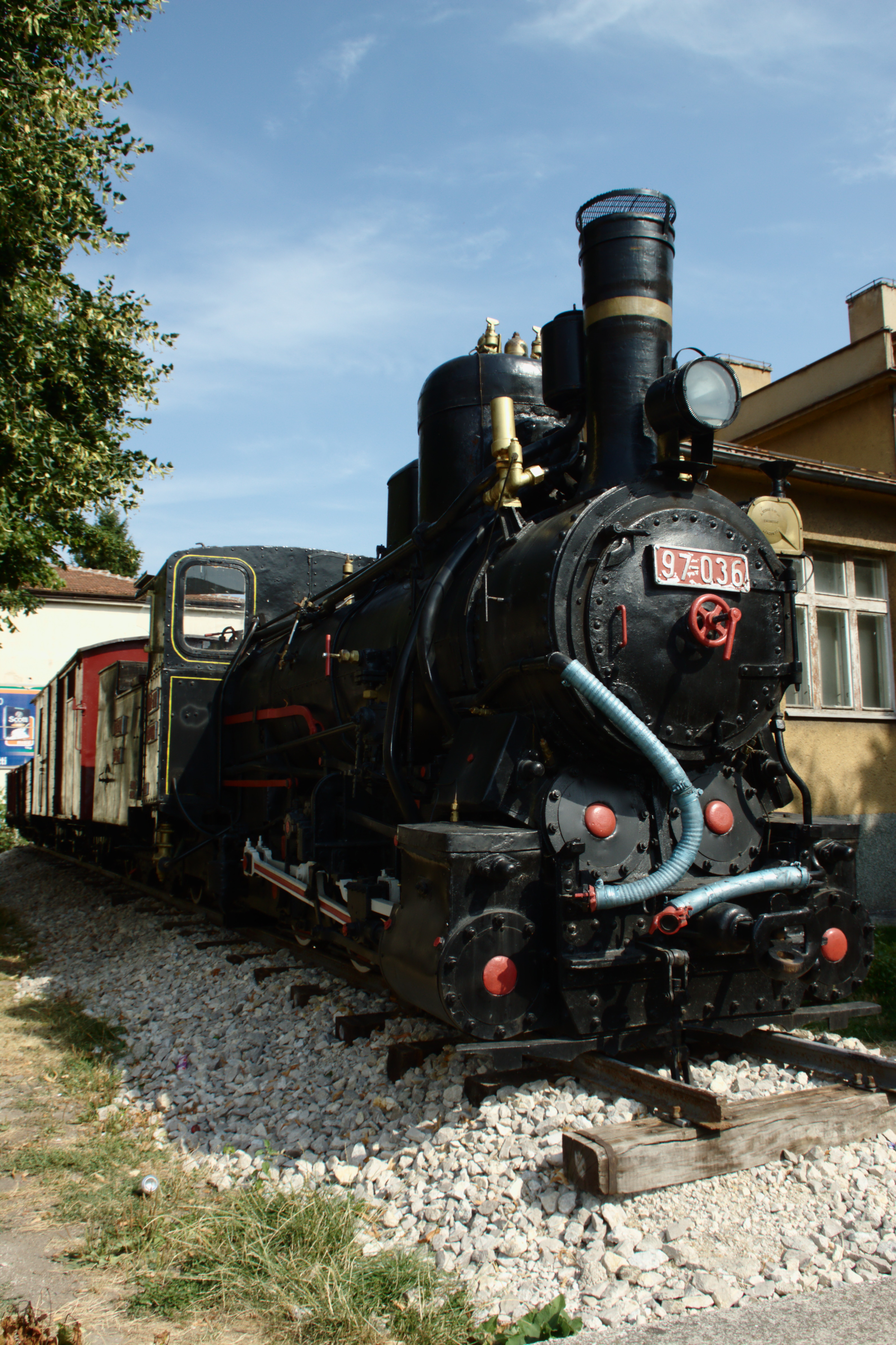 Train as a monument in Travnik, Bosnia and Herzegovina